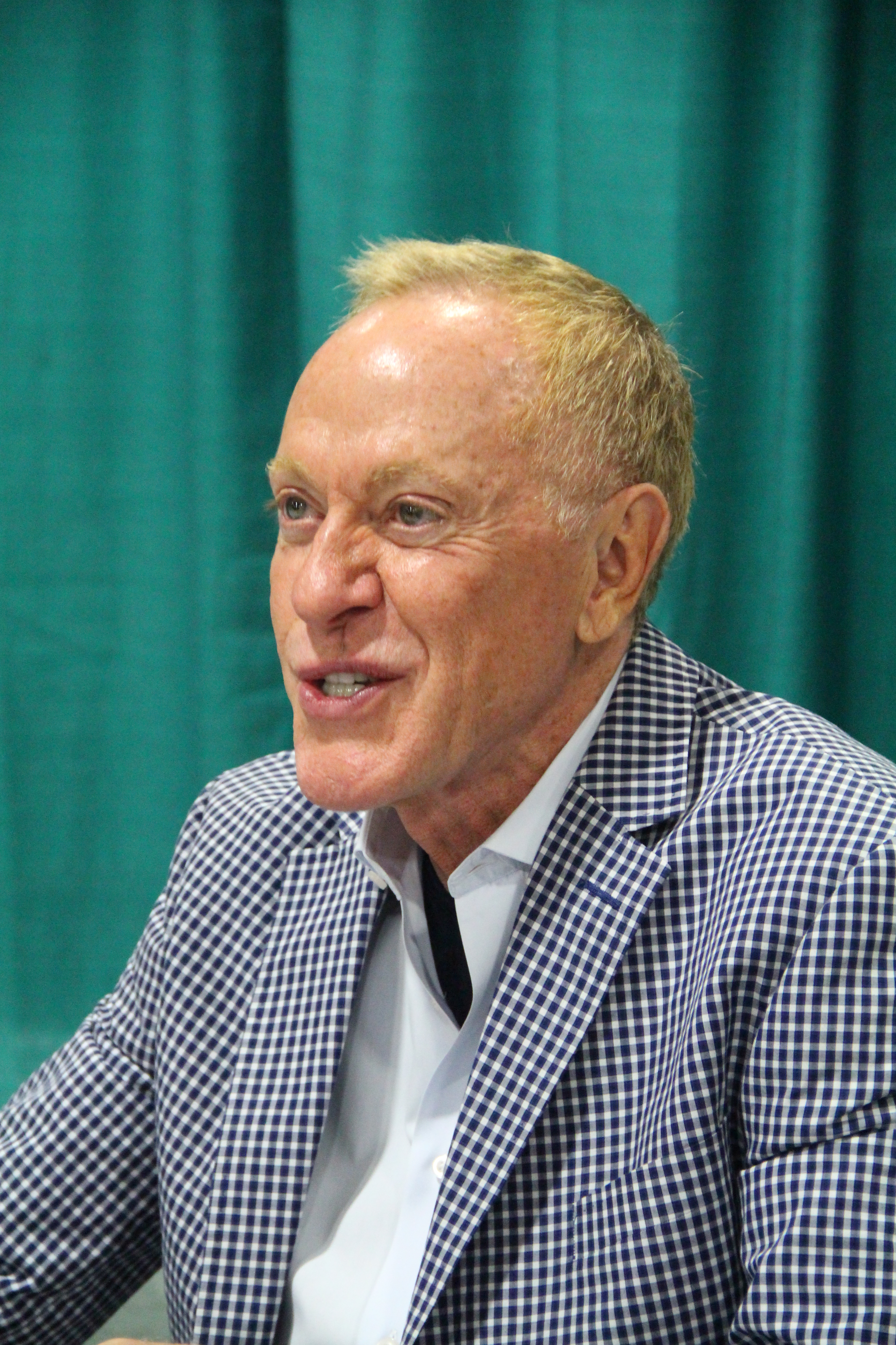 2015 Library of Congress National Book Festival September 5, 2015 Washington, DC